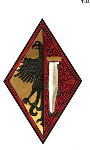 Coat of arms of the company of Bergenfahrer, Lübeck